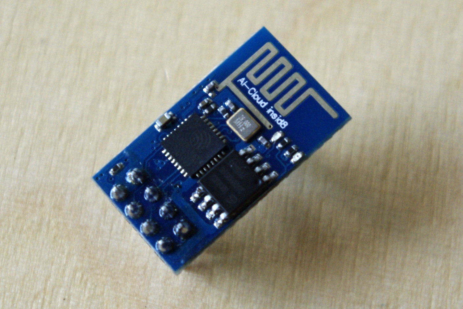 Top side of the E-01 module hosting an ESP8266 MCU.